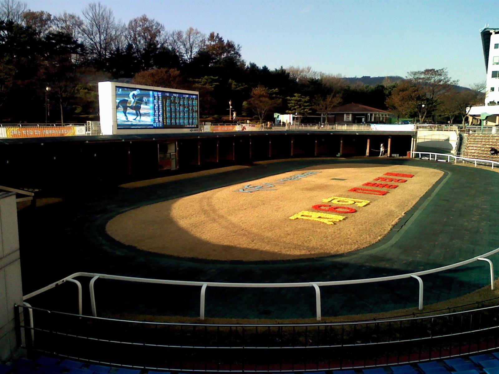 Seoul Racecourse, Paddock